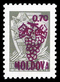 Stamp of Moldova